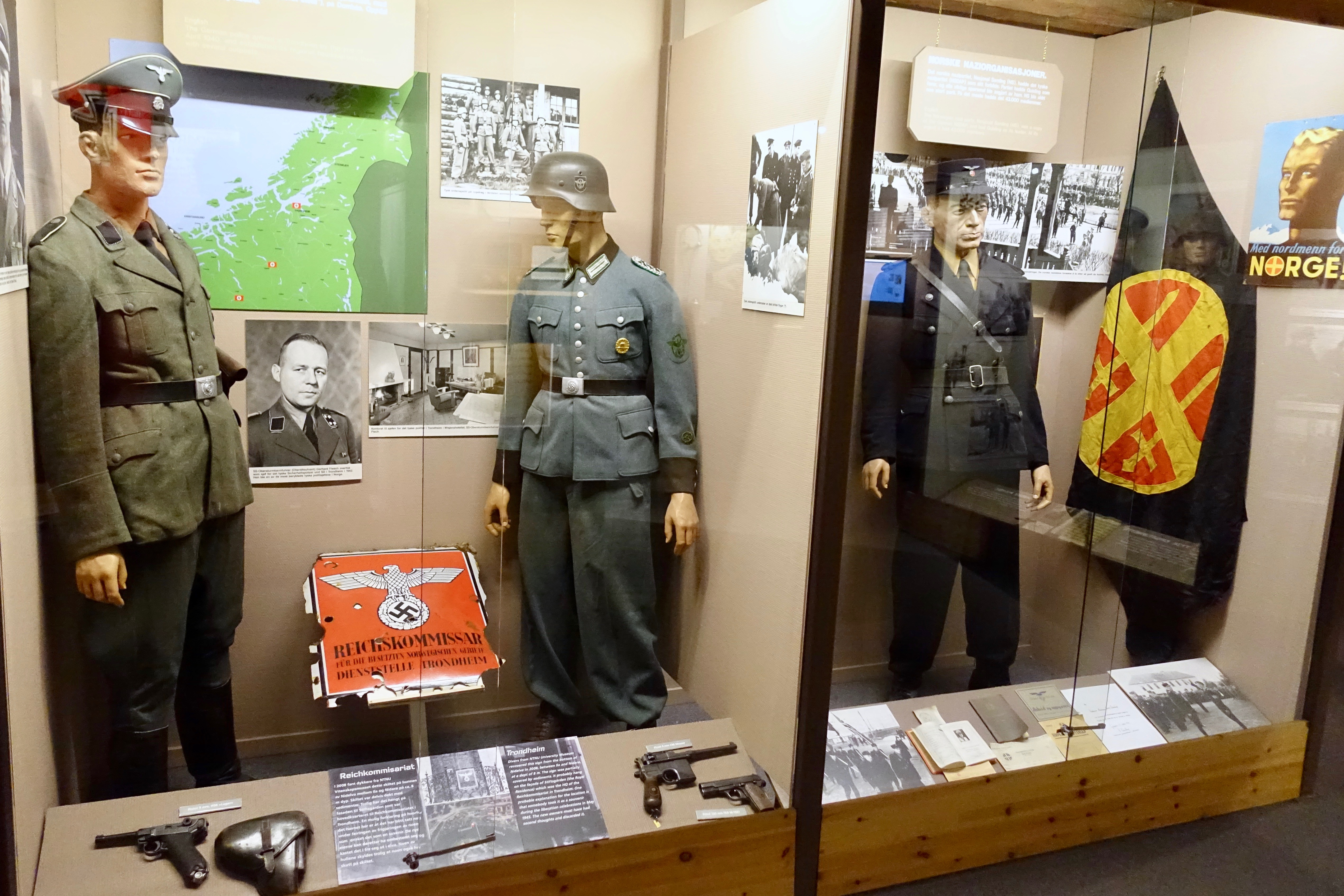 1. German police in German occupied Norway during World War II 1940 – 1945: Uniforms of the SS-Sicherheitsdienst (SD) and the Ordnungspolizei, Luger/Mauser pistols with holster, recovered wall sign for Reichskommissar für die besetzten norwegischen Gebiete Dienststelle Trondheim ("Reich Commissariat for the Occupied Norwegian Territories", regional headquarters at the Misjonshuset in Trondheim). Also photo of SS-Obersturmbannführer Gerhard Flesch, leader of the regional Sicherheitspolizei und SD in Trondheim from 1942. 2. Uniform of Hirden (Rikshirden), paramilitary organisation of Nasjonal Samling (NS), the Norwegian Fascist/Nazi party before and during the German occupation of Norway. Also flag of the Hirden, etc. Photo taken on March 20th, 2019 at the exhibitions in the Rustkammeret Army Museum in Erkebispegården in Trondheim, Norway.